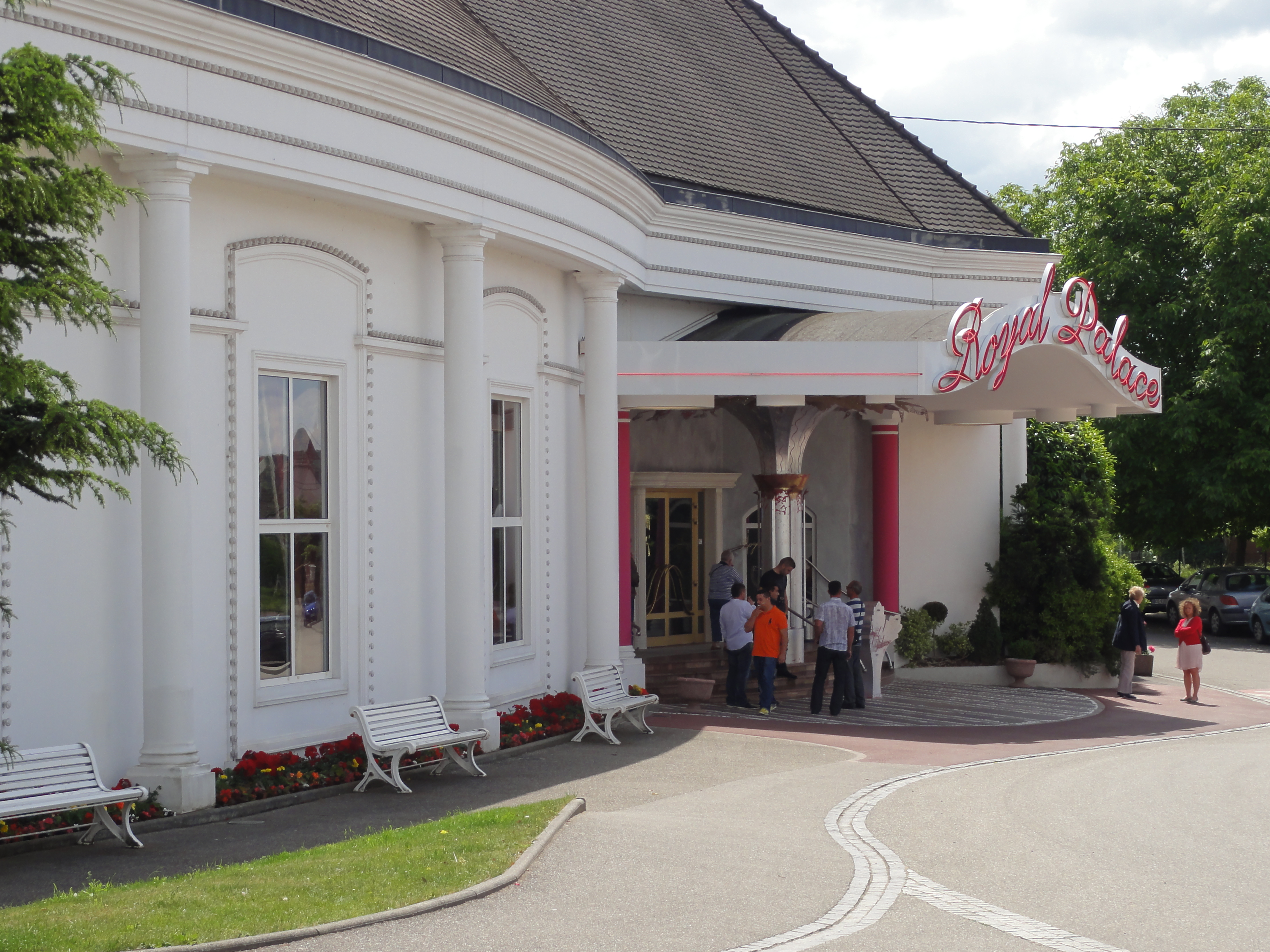 Alsace, Bas-Rhin, Kirrwiller, Royal Palace.